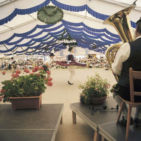 Tradition in Bavaria (Germany). Gaudirndldrahn-Wettbewerb im Rahmen des Gautrachtenfestes des Bayerischen Inngau-Trachtenverbandes in Pang. Photograph from the series Homeland, published in: Bohnenstengel, A. (2002): Bayern, Page 54–57